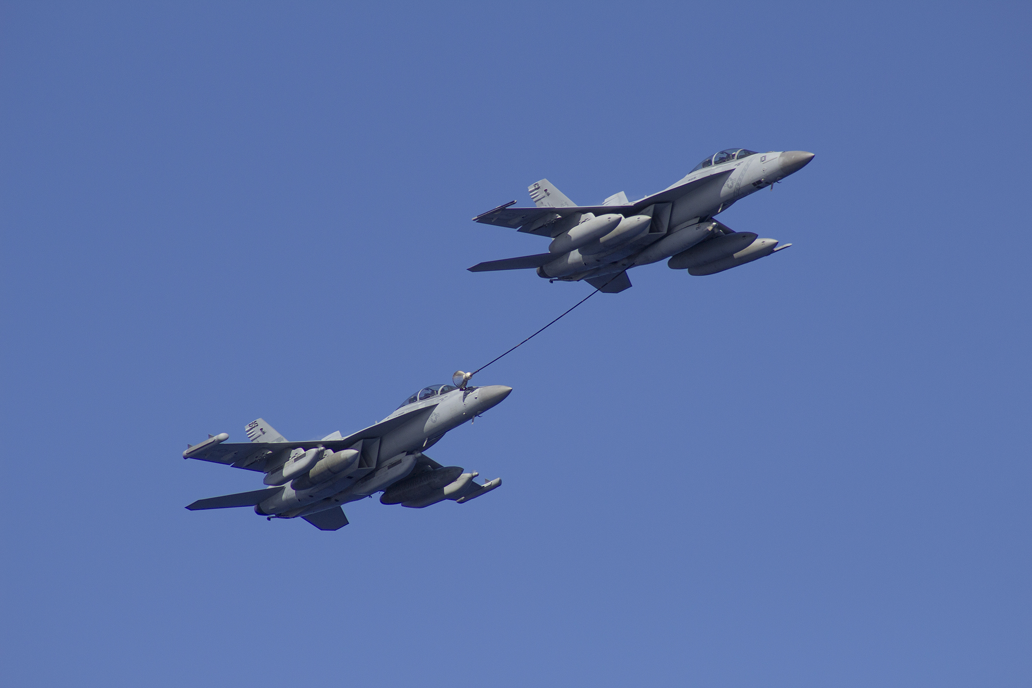 A U.S. Navy F/A-18E Super Hornet aircraft assigned to Strike Fighter Squadron (VFA) 102, right, and an EA-18G Growler assigned to Electronic Attack Squadron (VAQ) 141 demonstrate an aerial refueling during an air-power demonstration above the aircraft carrier USS George Washington (CVN 73), not shown Aug. 20, 2013, while underway in the Philippine Sea.